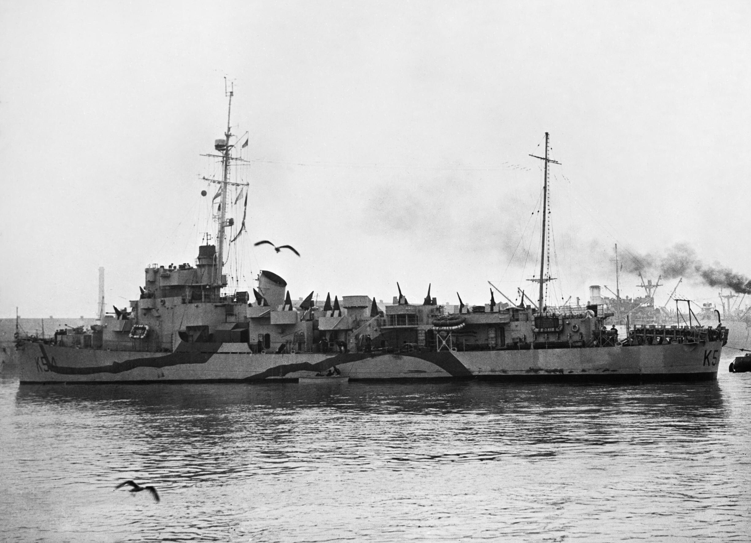 Royal Navy Captain class frigate HMS Lawford, docked at Liverpool. HMS Lawford in this picture has been converted to act as a headquarters ship during Operation Neptune. Note the extended superstructure (to accommodate the Staff Officers) and additional smaller mainmast to support the extra aerials. On 8 June 1944, while operating off Juno Beach, she was hit by enemy fire during an air attack and sunk